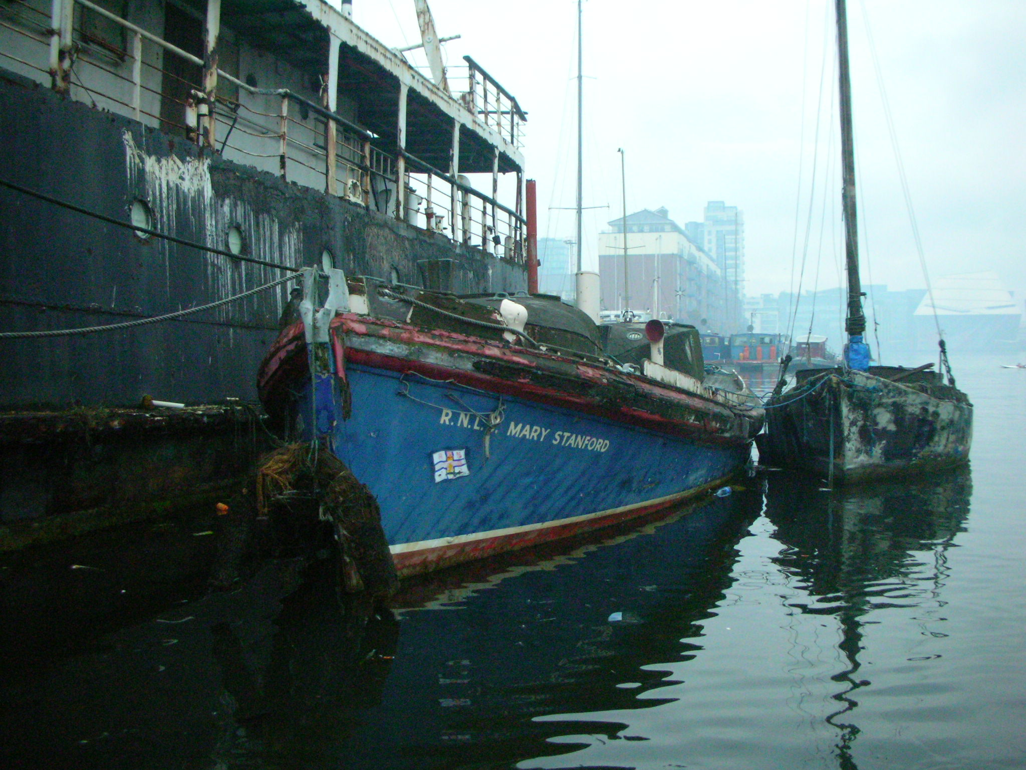 RLLB Mary Standford languishing in Hanover Dock